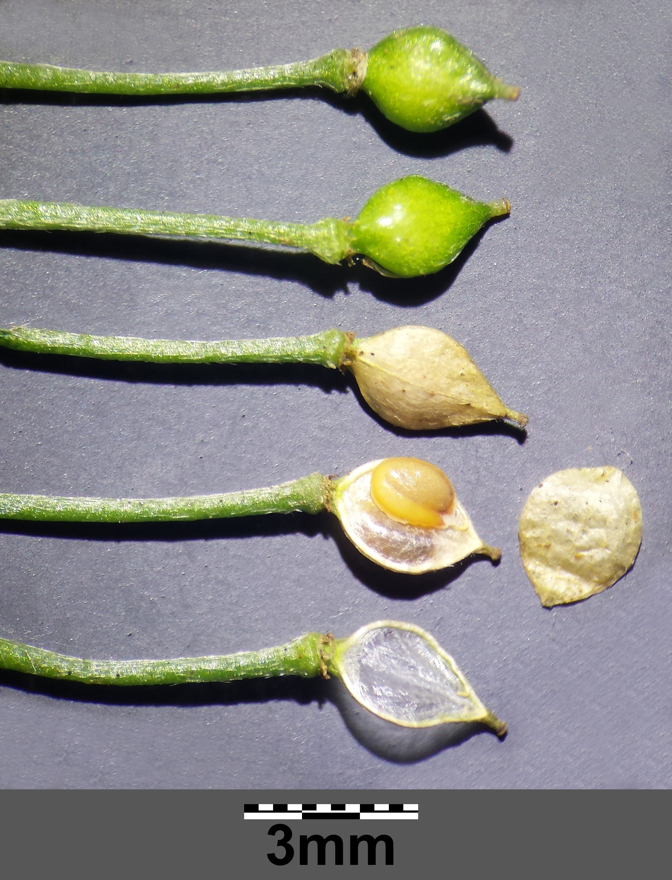 Siliques Taxonym: Lobularia maritima ss Fischer et al. EfÖLS 2008 ISBN 978-3-85474-187-9 Location: Marchfeldkanal near Gerasdorf, district Wien-Umgebung, Lower Austria - ca. 160 m a.s.l. (here feral) Habitat: ruderal meadows